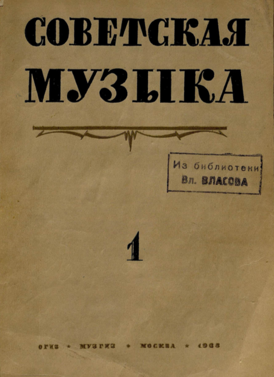 Cover of the magazine "Soviet music". 1933, No. 1.